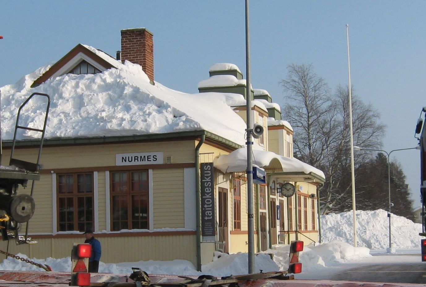 Nurmes railway station in Finland